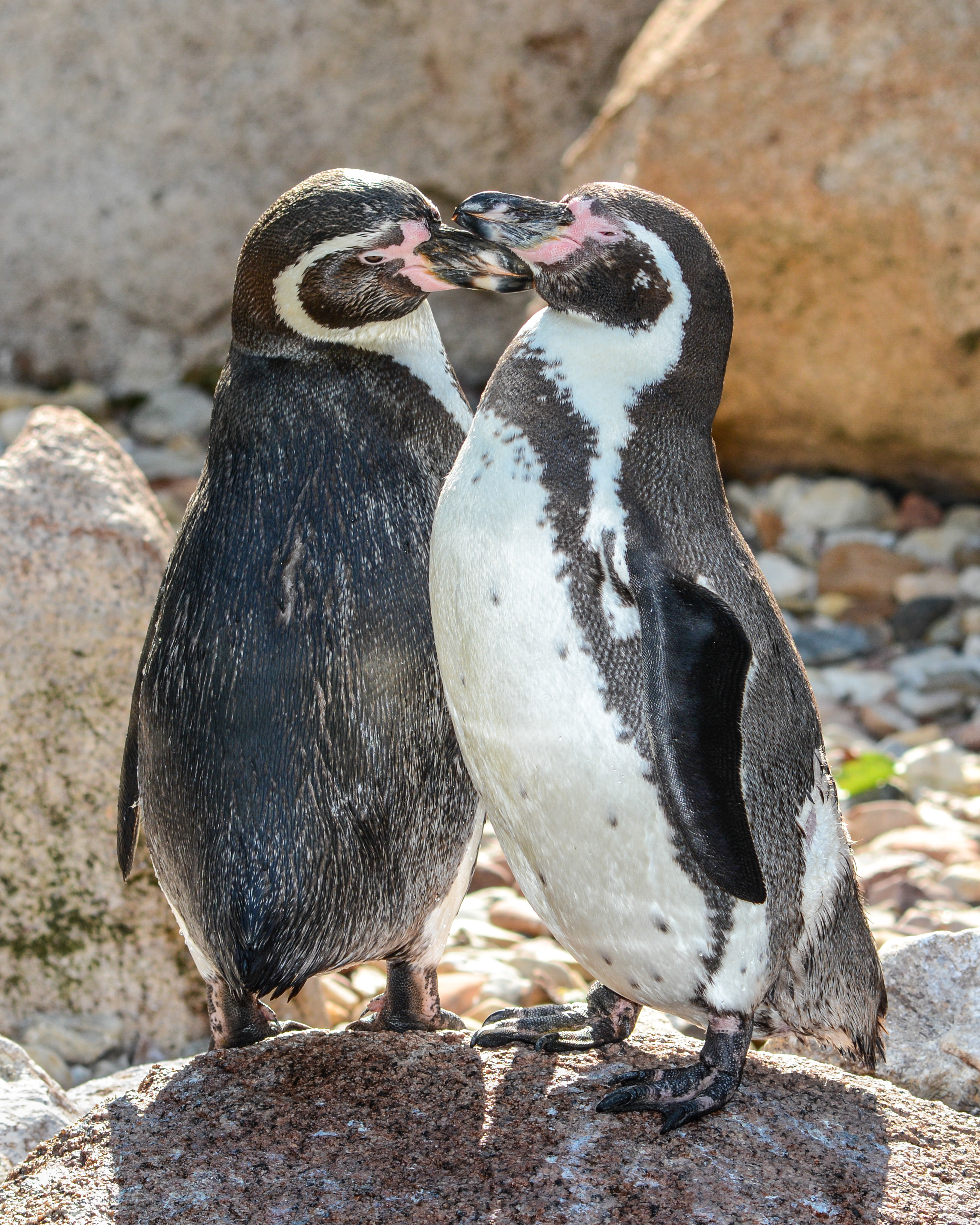 Young Humboldt Penguins (Spheniscus humboldti) at Weltvogelpark Walsrode (Walsrode Bird Park, Germany)